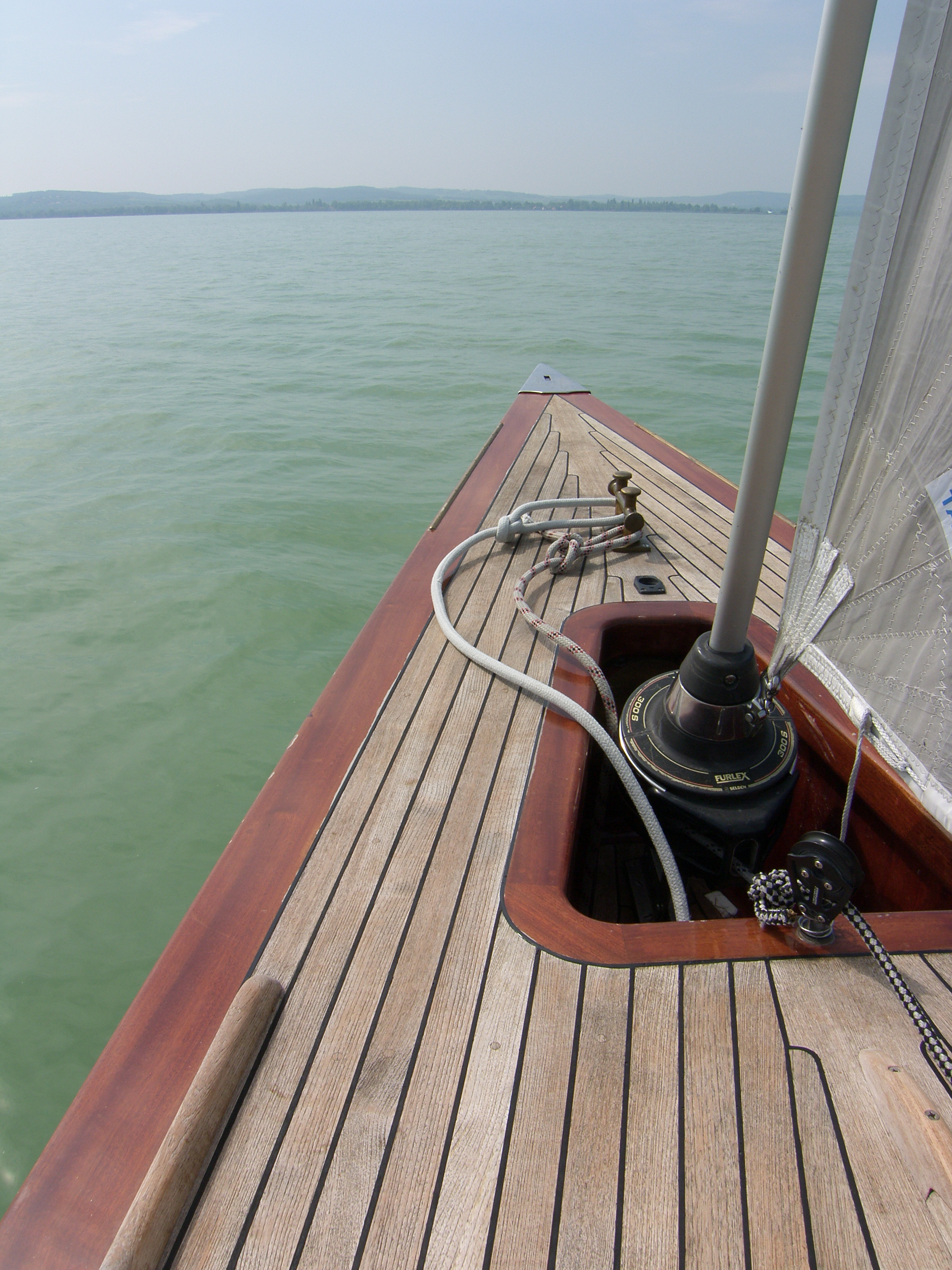 A Nemere II. egy 75-ös cirkáló (Schärenkreutzer), a Balaton legendás zászlóshajója. Az 1944-ben épített Nemere vitorlás hétszer állt rajthoz a balatoni Kékszalagon, s 5 győzelmet aratott. 1955-ös 10 óra 40 perces rekordját 57 éven át nem tudták túlszárnyalni.